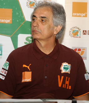 Vahid Halilhodžić, association football national coach of Cote d'Ivoire